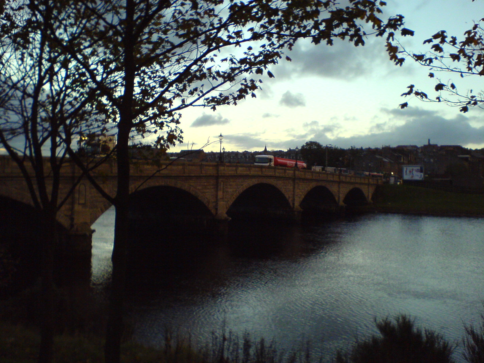 I took this with my phone this morning on the way to work, I have no problem with anyone using it in any way whatsoever. Category:Aberdeen